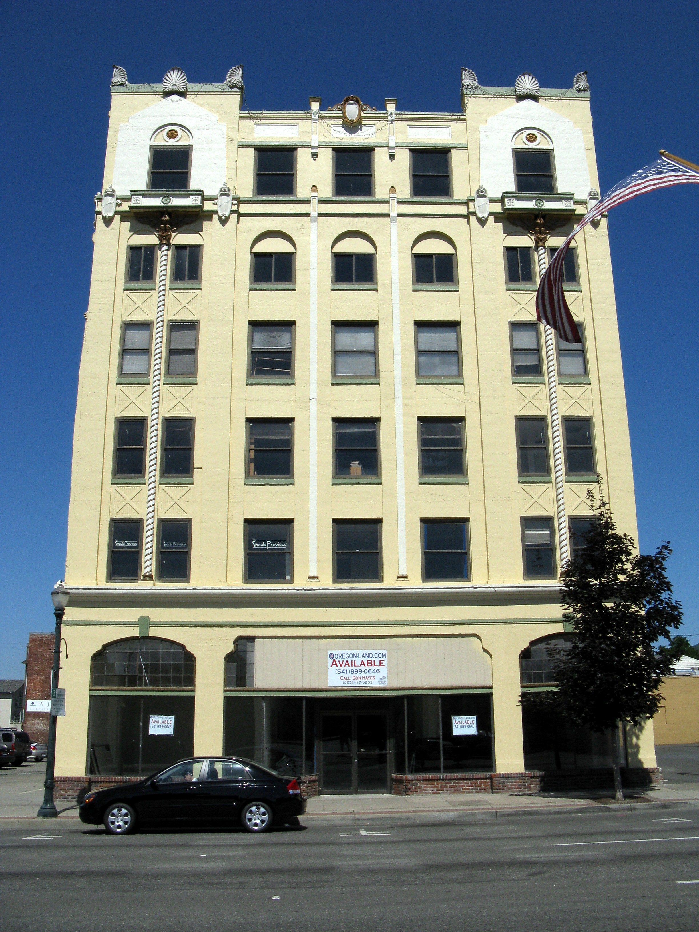 The historic Redwoods Hotel (built 1925), located at 306-310 Northwest 6th Street in Grants Pass, Oregon, United States, is listed on the US National Register of Historic Places (NRHP).NRHP reference number 79002079